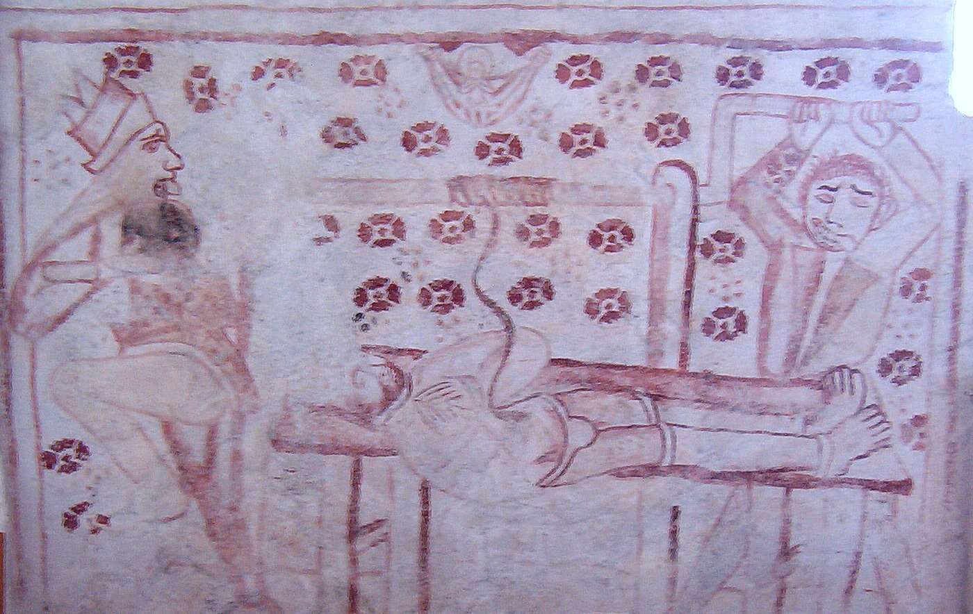 Saint Erasmus being tortured. Medieval wall painting, Mariakyrkan, Båstad, Sweden. Date: July, 2005 This image is of bad quality because of bad lightning in the Church . Feel free to try and improve it!